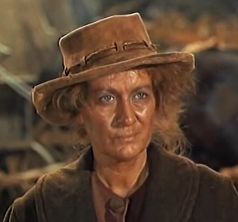 Katherine Warren in the TV series Bonanza, episode The Spitfire - cropped screenshot